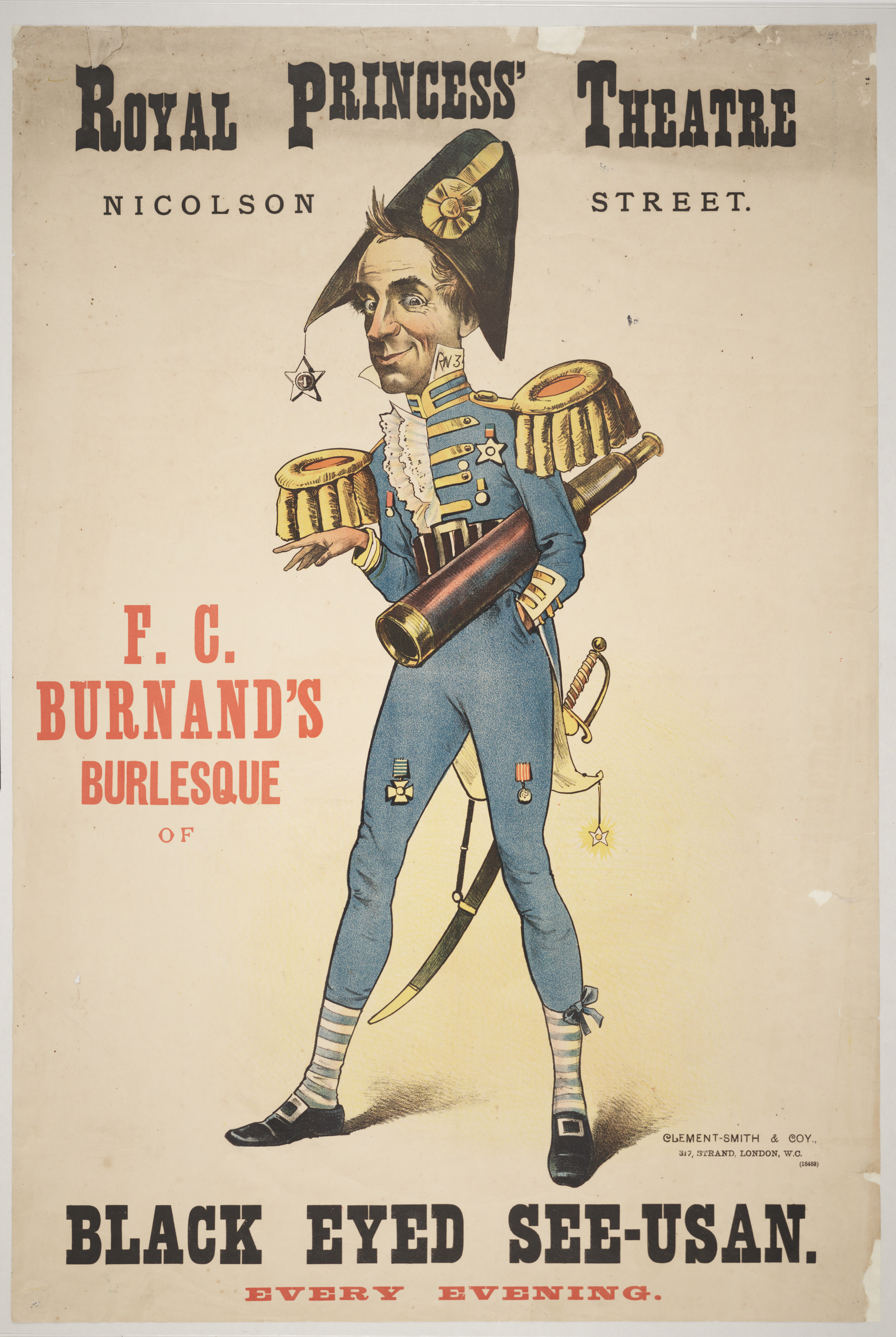 Theatre poster for a revival of F. C. Burnand's 1884 Burlesque of Douglas William Jerrold's Black-Eyed Susan, called Black Eyed See-Usan. Every evening. Printed by Clement-Smith & Co[mpan]y, 317 Strand, London, W.C.